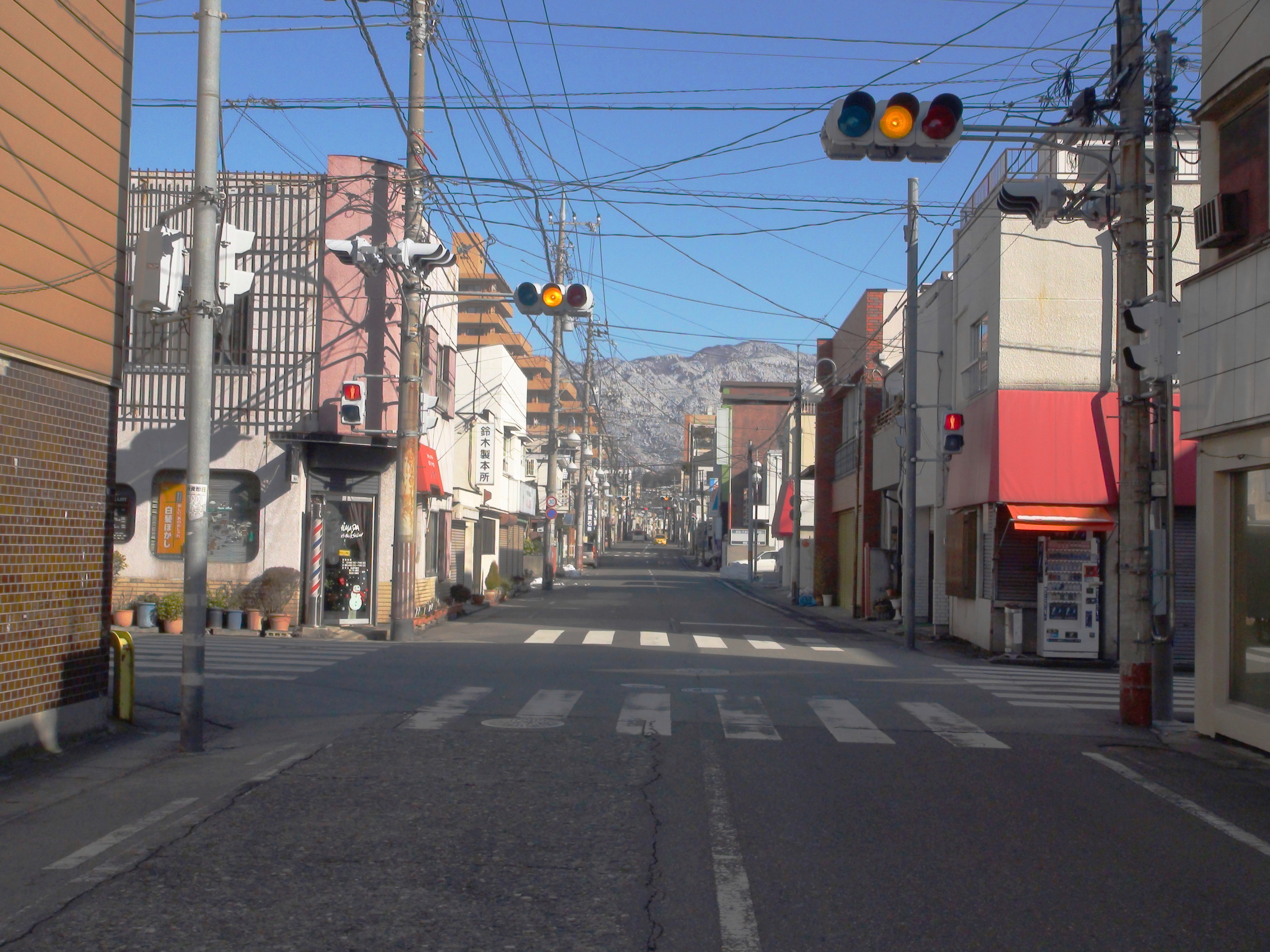 Yoka-Machi St.Kofu-City